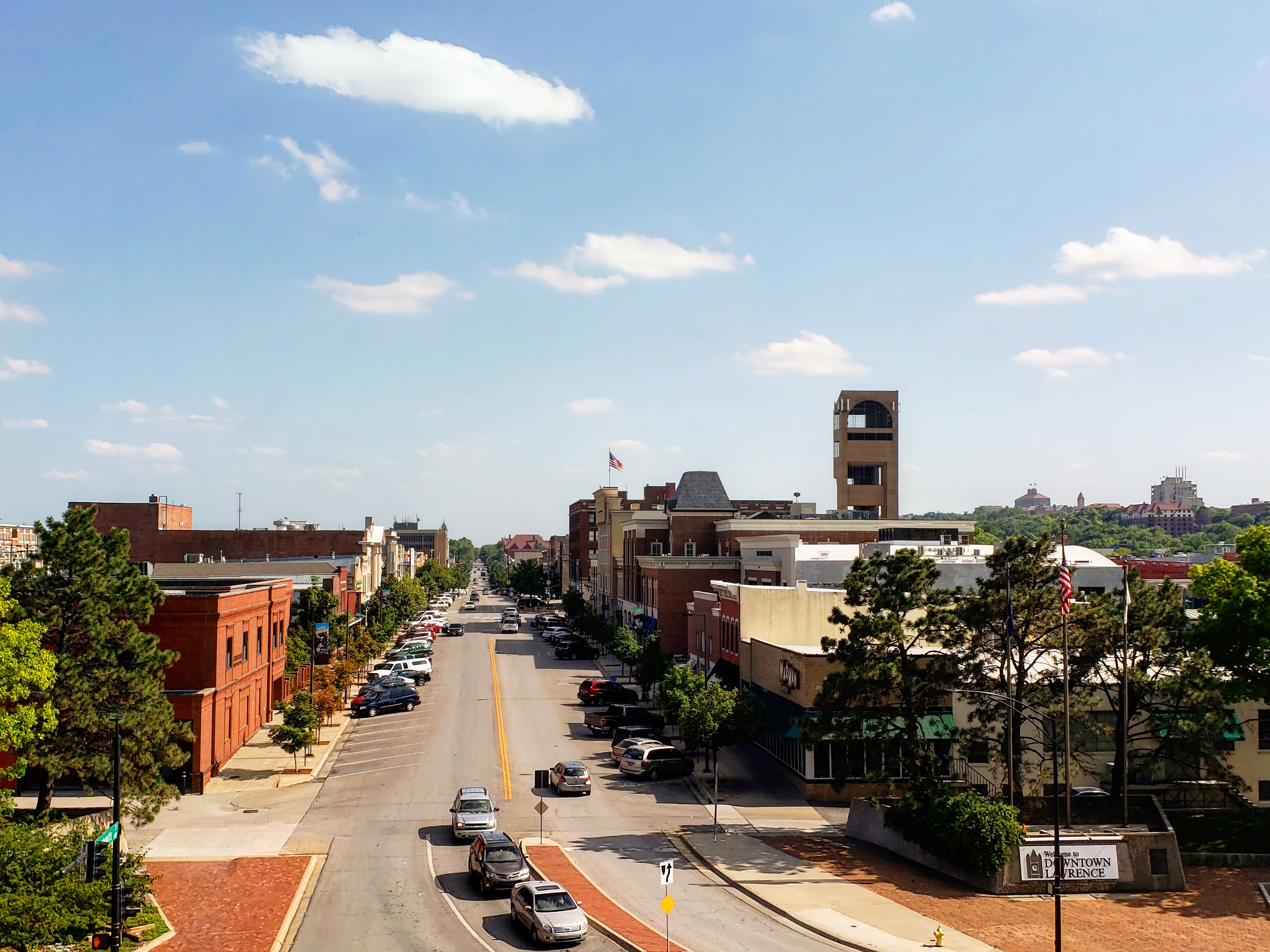 Photo by Ian Ballinger